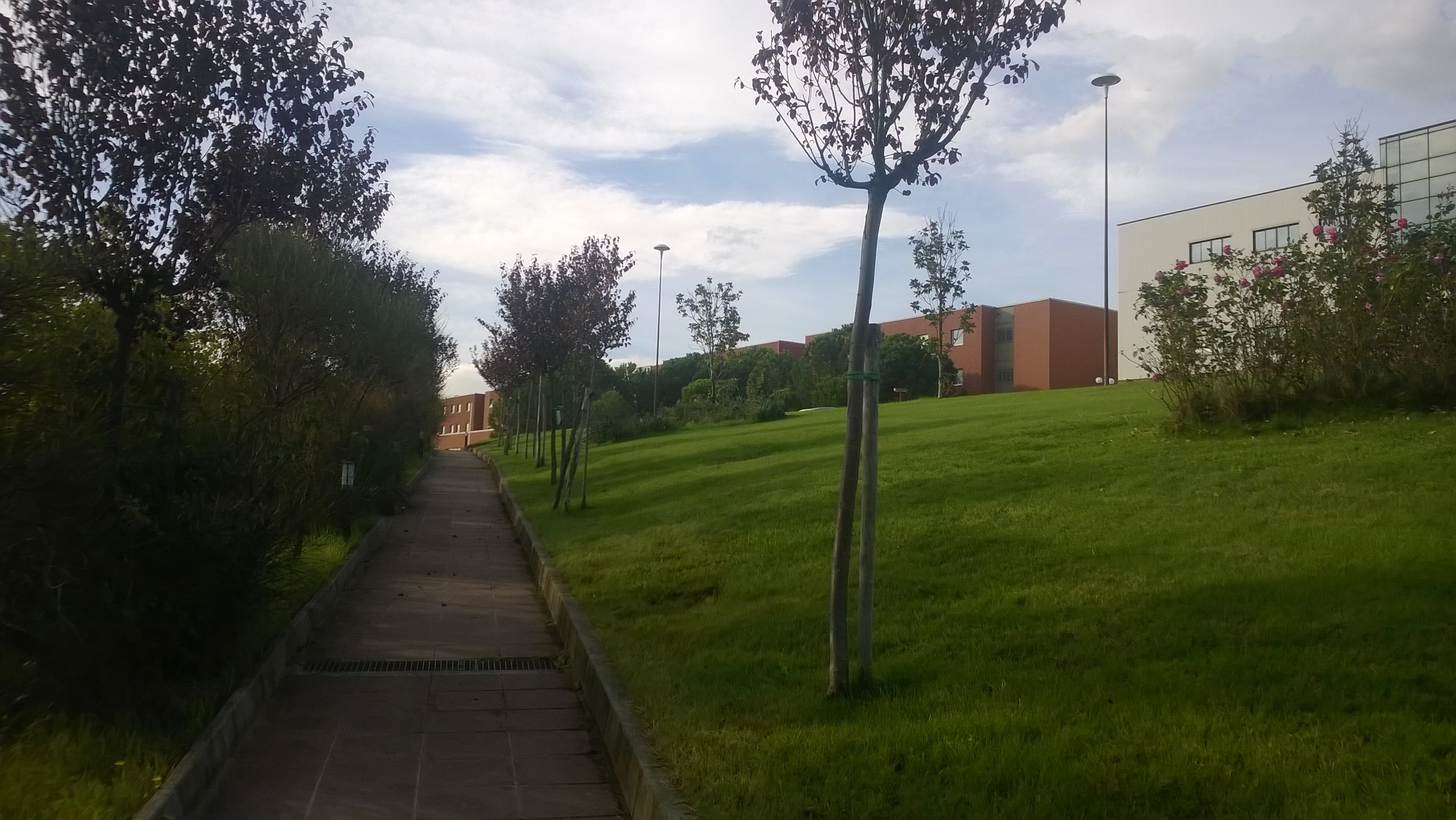 Vista di un viale del campus